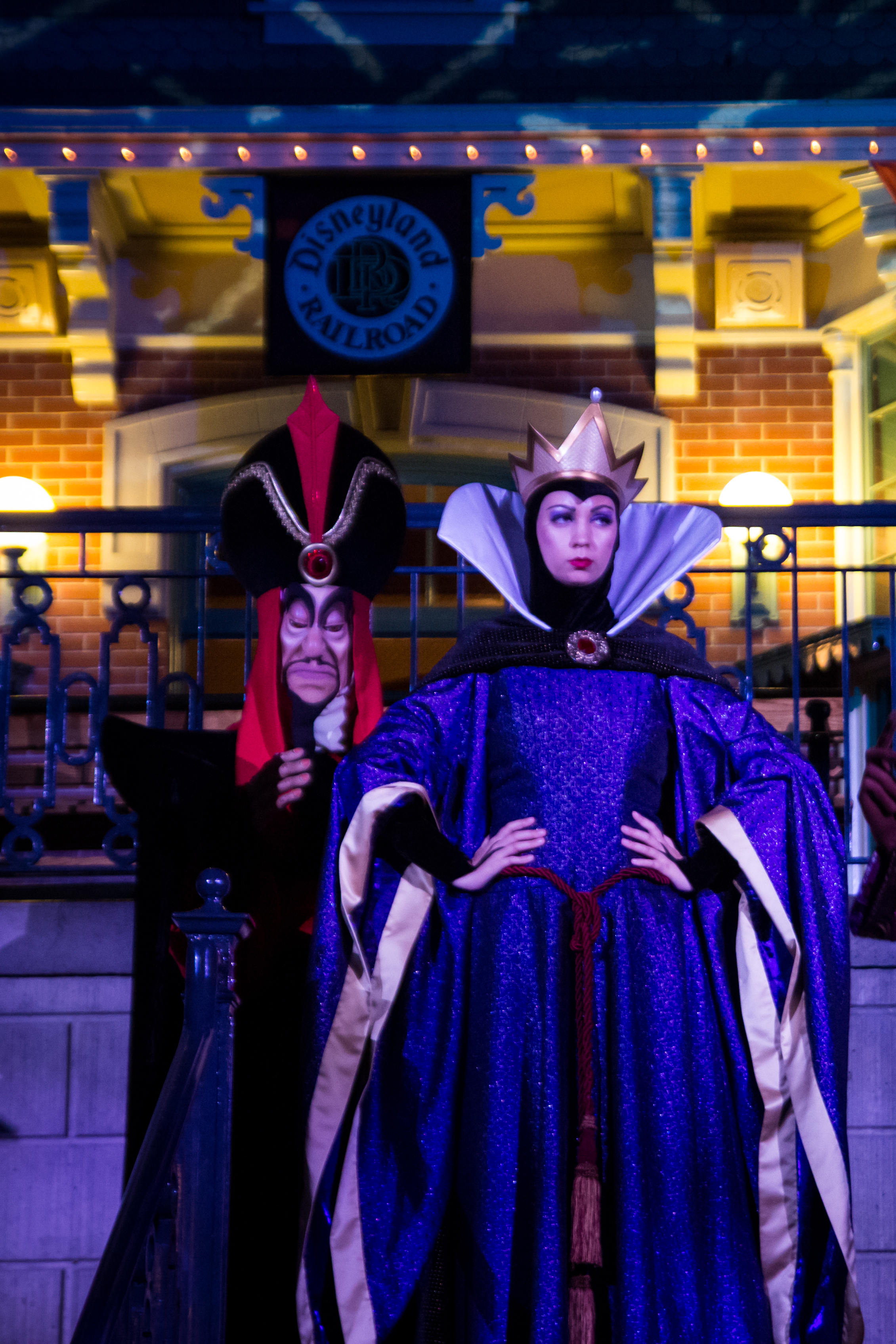 The awesome villains hanging out at the Main Street railroad station.